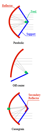 Parabolic antenna types; three main types of parabolic antenna Center fed: The feed antenna is at the focus of the antenna, on the beam axis. Off-axis: The reflector is an asymmetric segment of a parabolic surface so the focus is off the beam axis, outside the beam area. This prevents the feed structure and its supports from blocking part of the beam. Gregorian: The feed is located on or behind the center of the primary reflector. Its beam illuminates a concave secondary reflector at the focus, which reflects the beam back toward the primary reflector, This is mistakenly labelled "Cassegrain"; Cassegrain antennas have a convex secondary reflector.